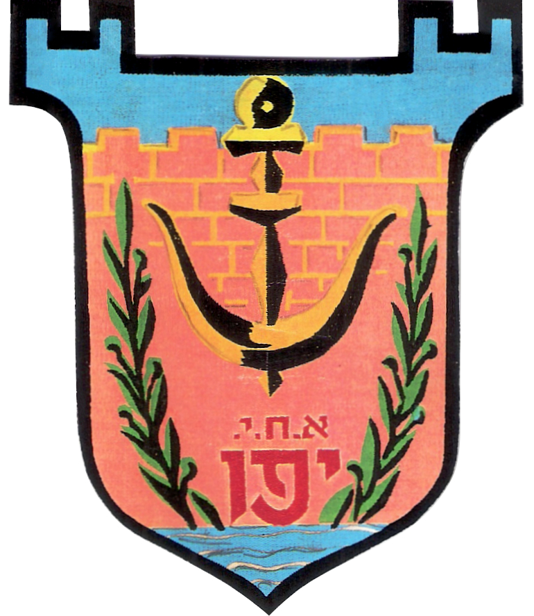 The emblem of Israeli Navy Ship - INS Yafo